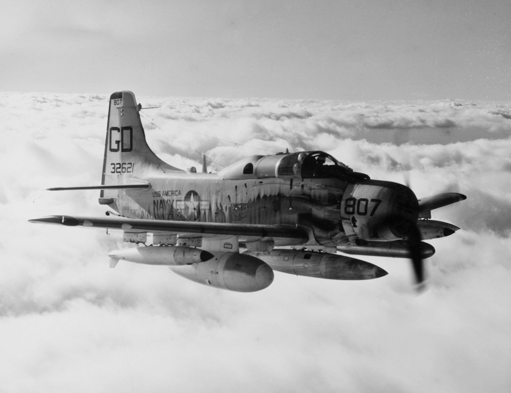 A U.S. Navy Douglas EA-1F Skyraider (BuNo 132621) of Airborne Early Warning Squadron VAW-33 Det.66 Night Hawks in flight. VAW-33 Det.66 was assigned to Attack Carrier Air Wing 6 (CVW-6) aboard the aircraft carrier USS America (CVA-66) in 1965.